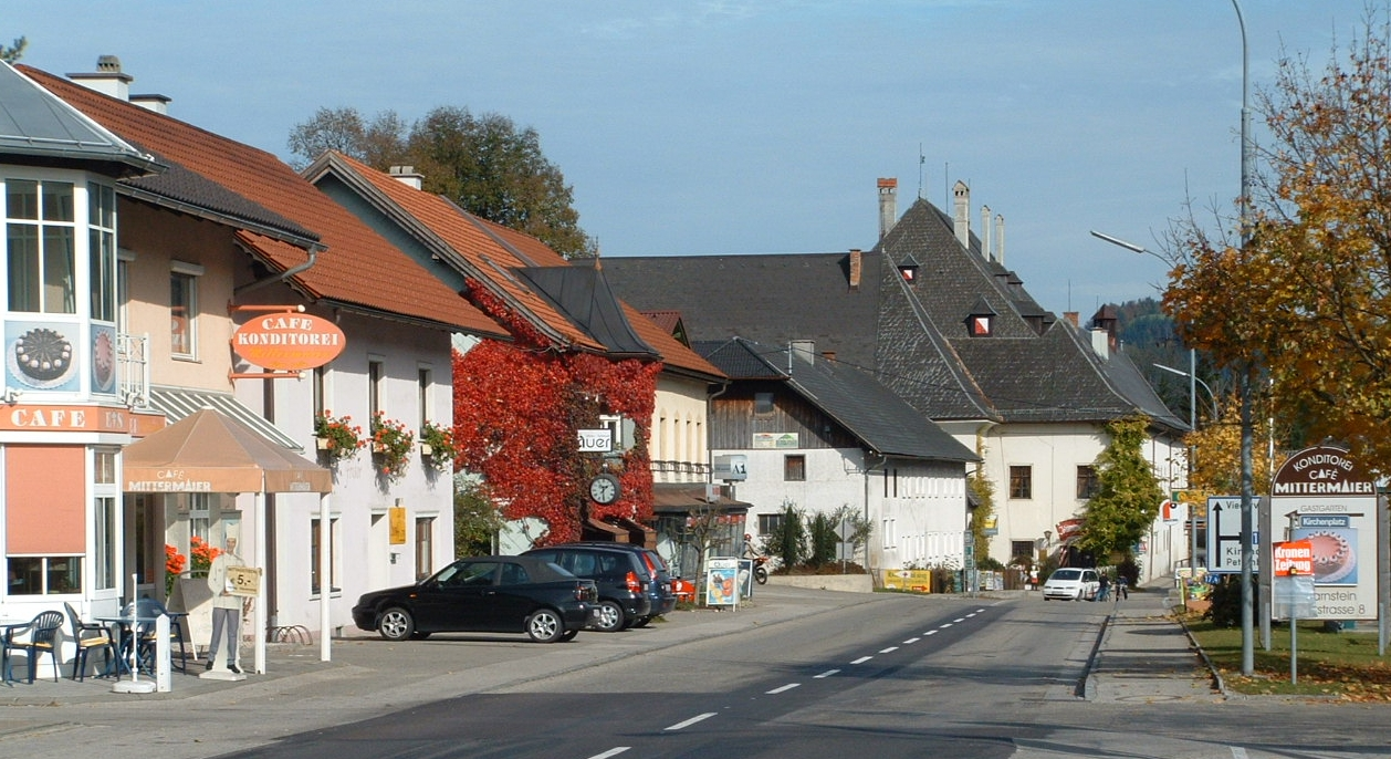 Scharnstein highstreet with castle Photograph by Gakuro